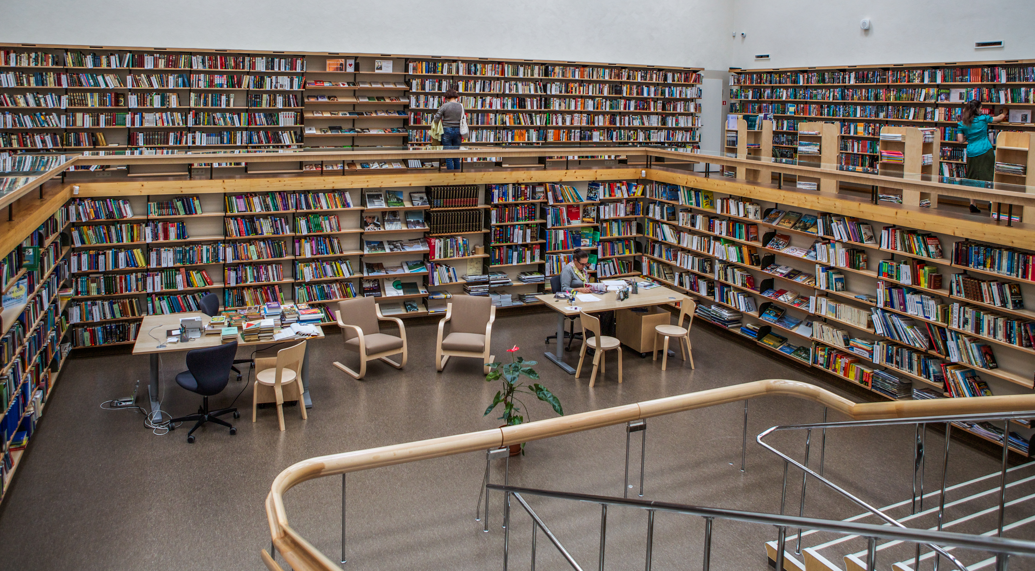 Vyborg city library interior designed by architect Alvar Aalto